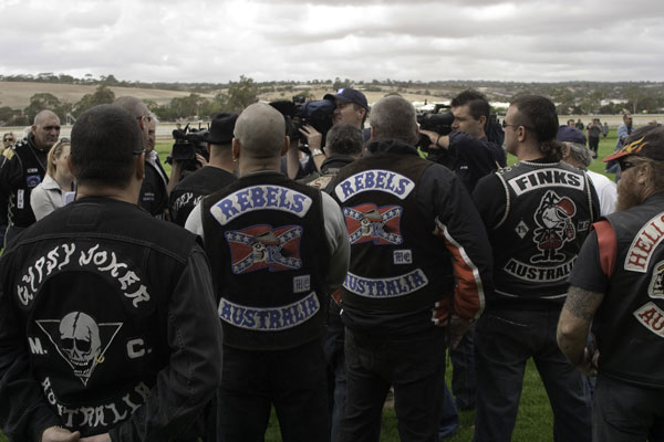 Gawler, South Australia. Gypsy Jokers Poker Run